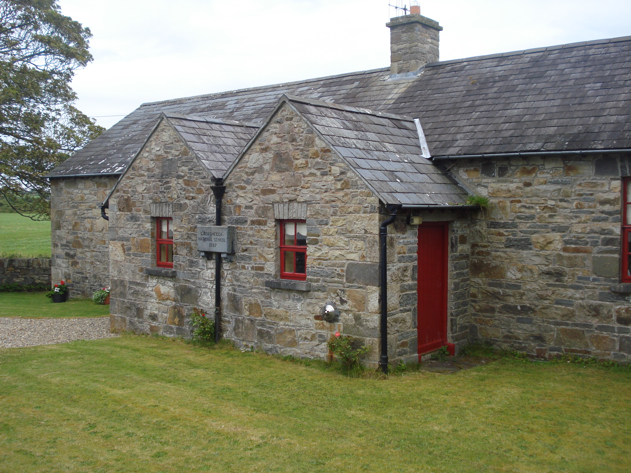 The old National School of Labasheeda, founded in 1887. The building is now in use as private house.